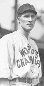 Picture of Cy Seymour